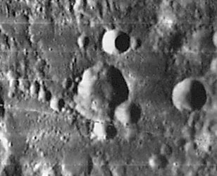 Müller lunar crater - Lunar Orbiter IV image LOIV 101 H3